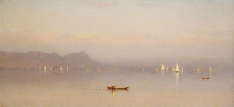 Sandford Robinson Gifford (1823-1880) "Morning in the Hudson, Haverstraw Bay", 1866 (Terra collection - shown at the Art Institute of Chicago)